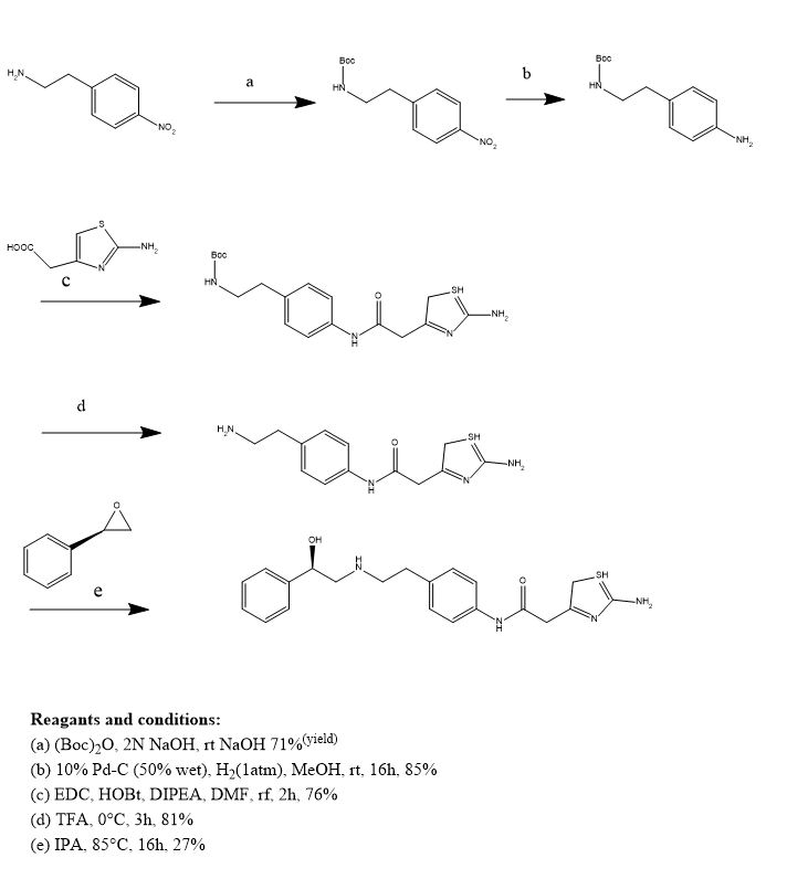 A short and practical synthesis of Mirabegron